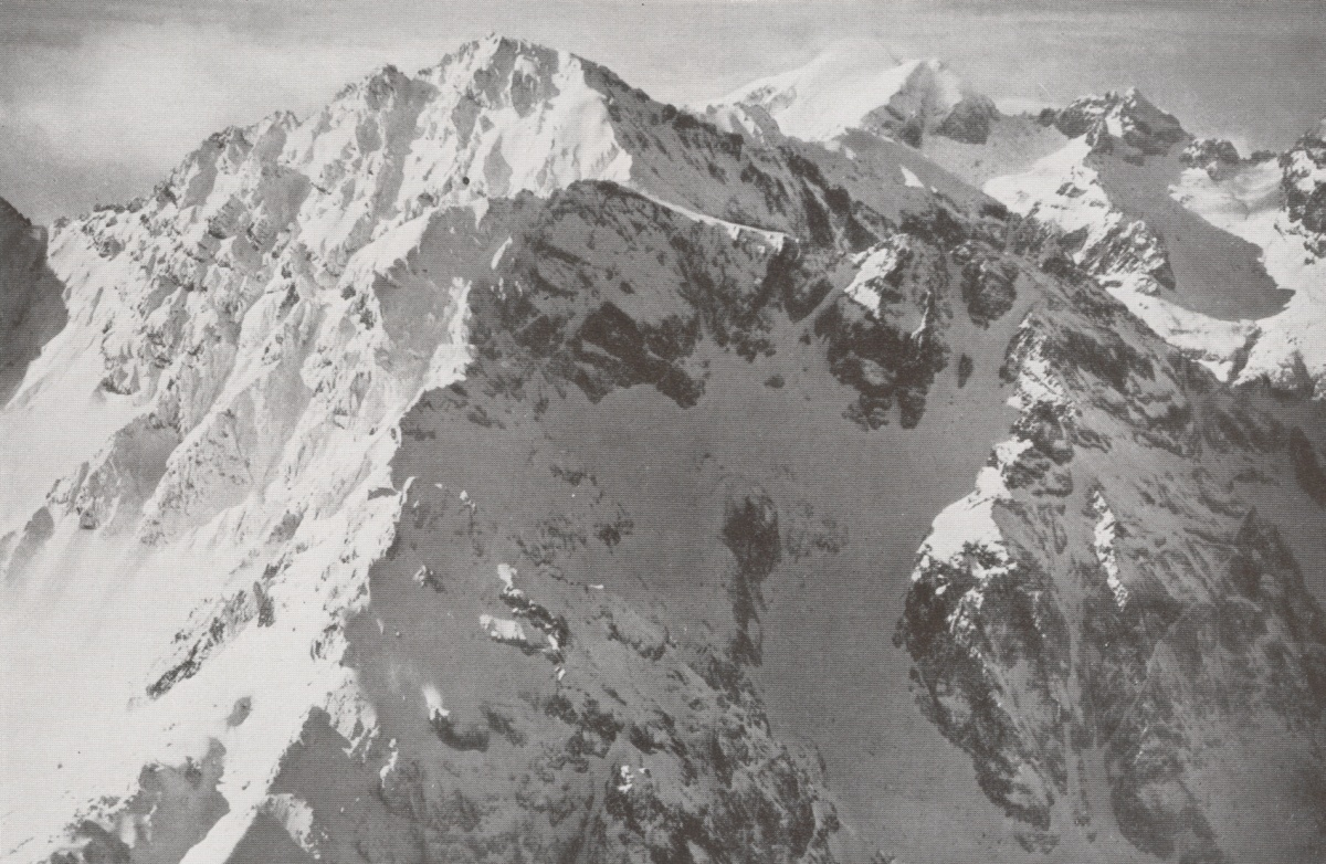 Jbel Toubkal in December 1930. Air photo taken by Swiss pilot and photographer Walter Mittelholzer (1894-1937).